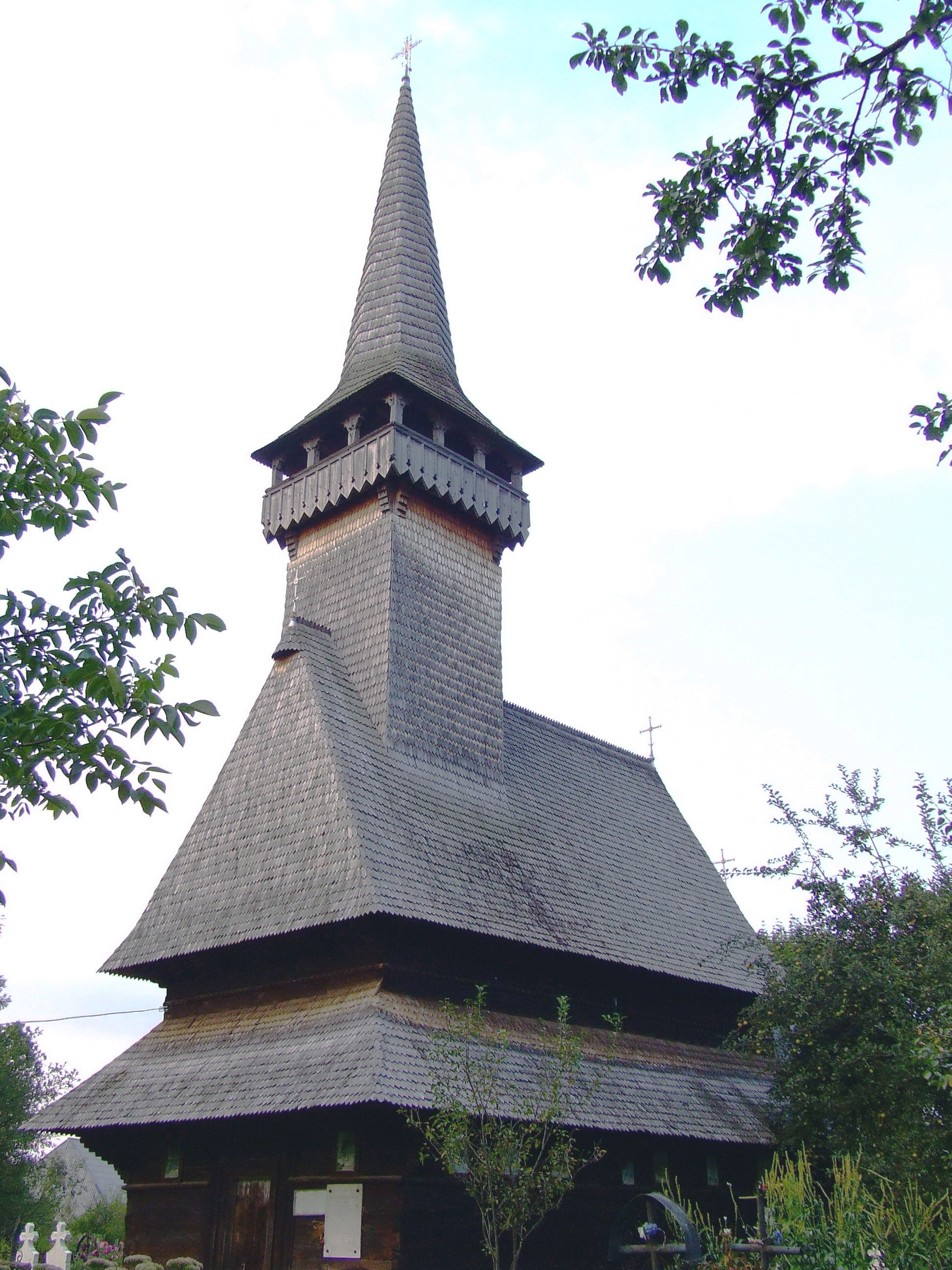 wooden church in Sat-Șugatag, Maramureș